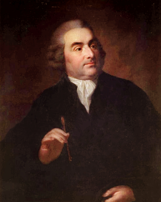 Petrus Camper (1722-1789), Dutch professor in Zoology, Fysiology and Anatomy